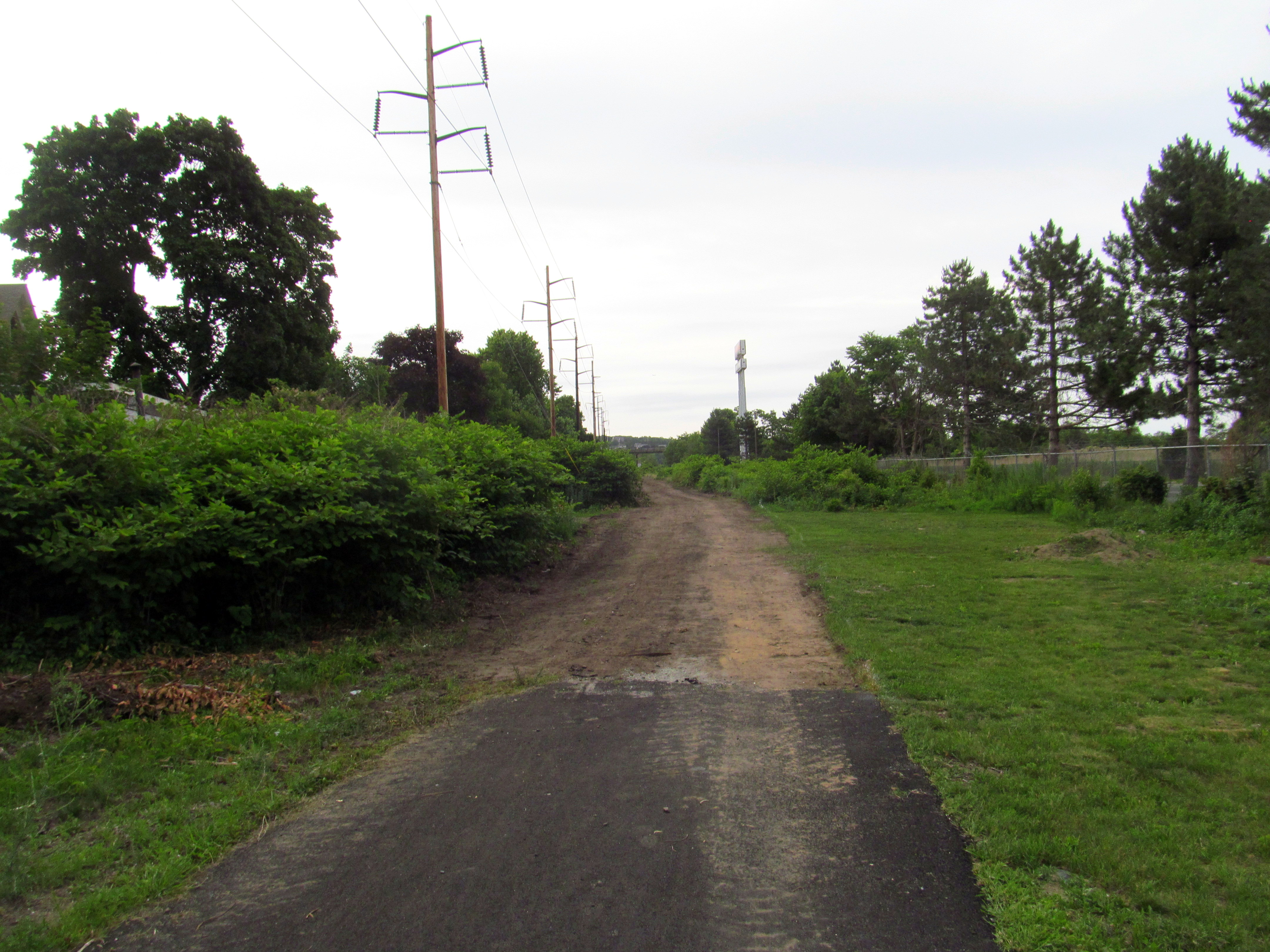 The Northern Strand Community Trail at the Malden/Revere border in June 2015. The Revere section was not yet paved at that time.